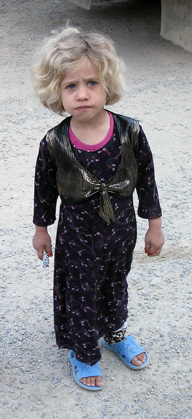 A Kurdish Hawrami girl